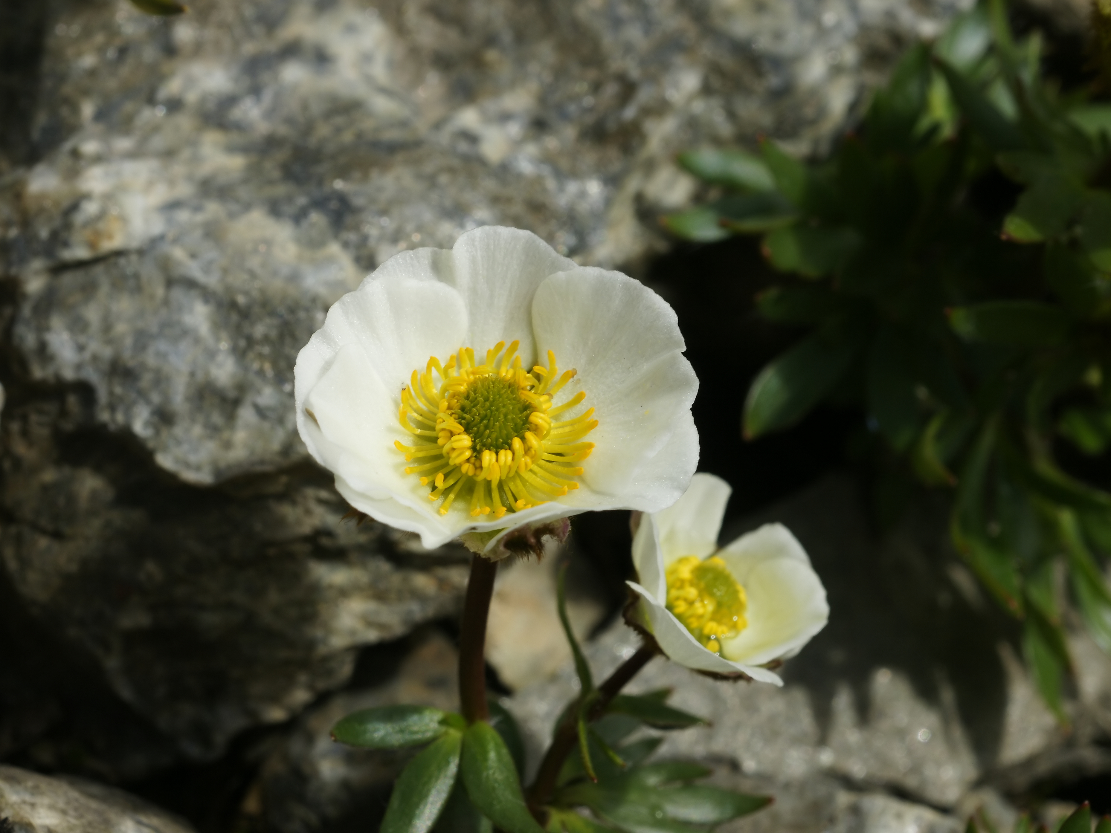 Glacier crowfoot at the Swiss/Italian border at the Grand Saint Bernard Pass.